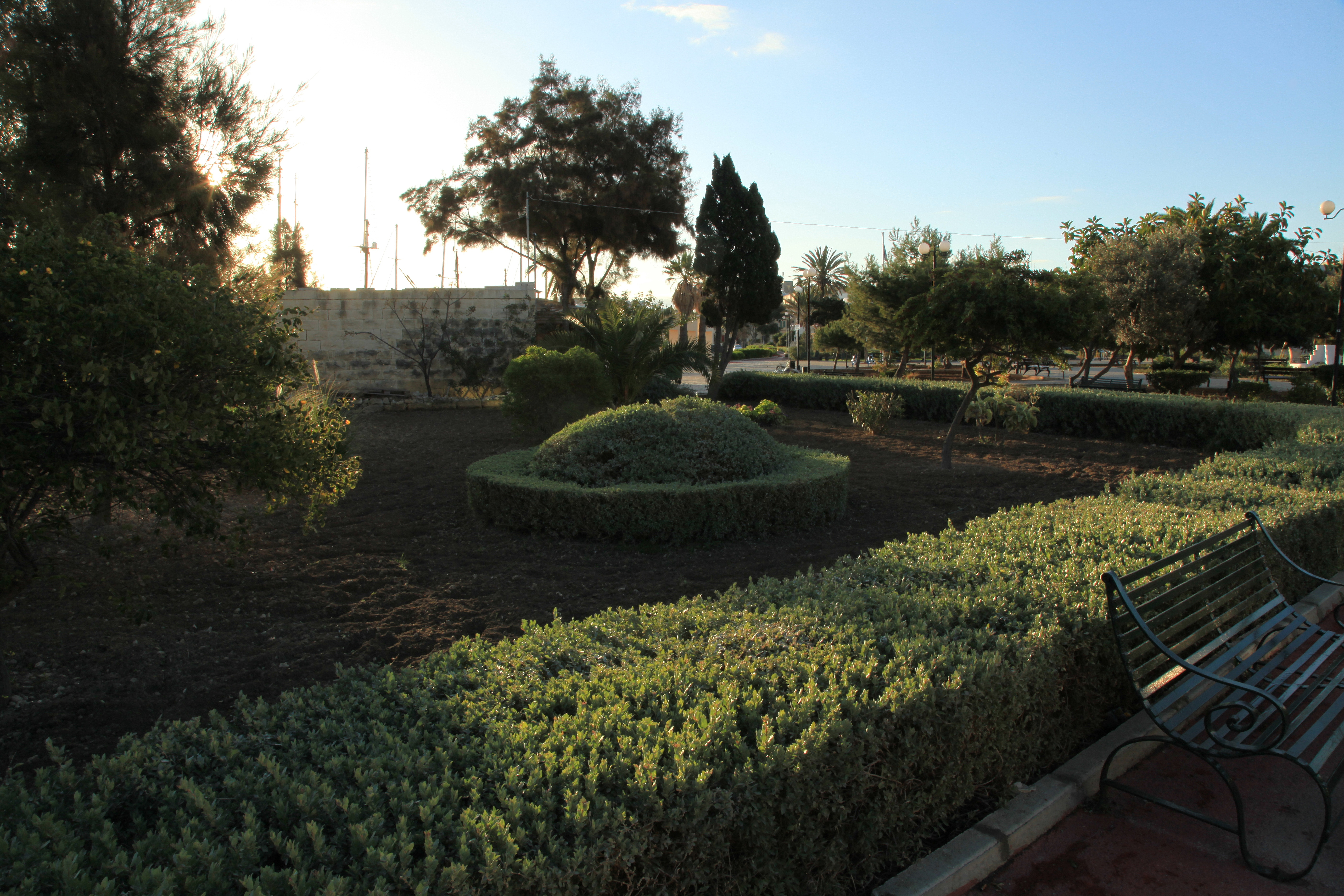 Gnien il-Kunsill ta' l-Ewropa at Triq l-Imsida/Xatt ta' Ta' Xbiex in Gżira, Malta